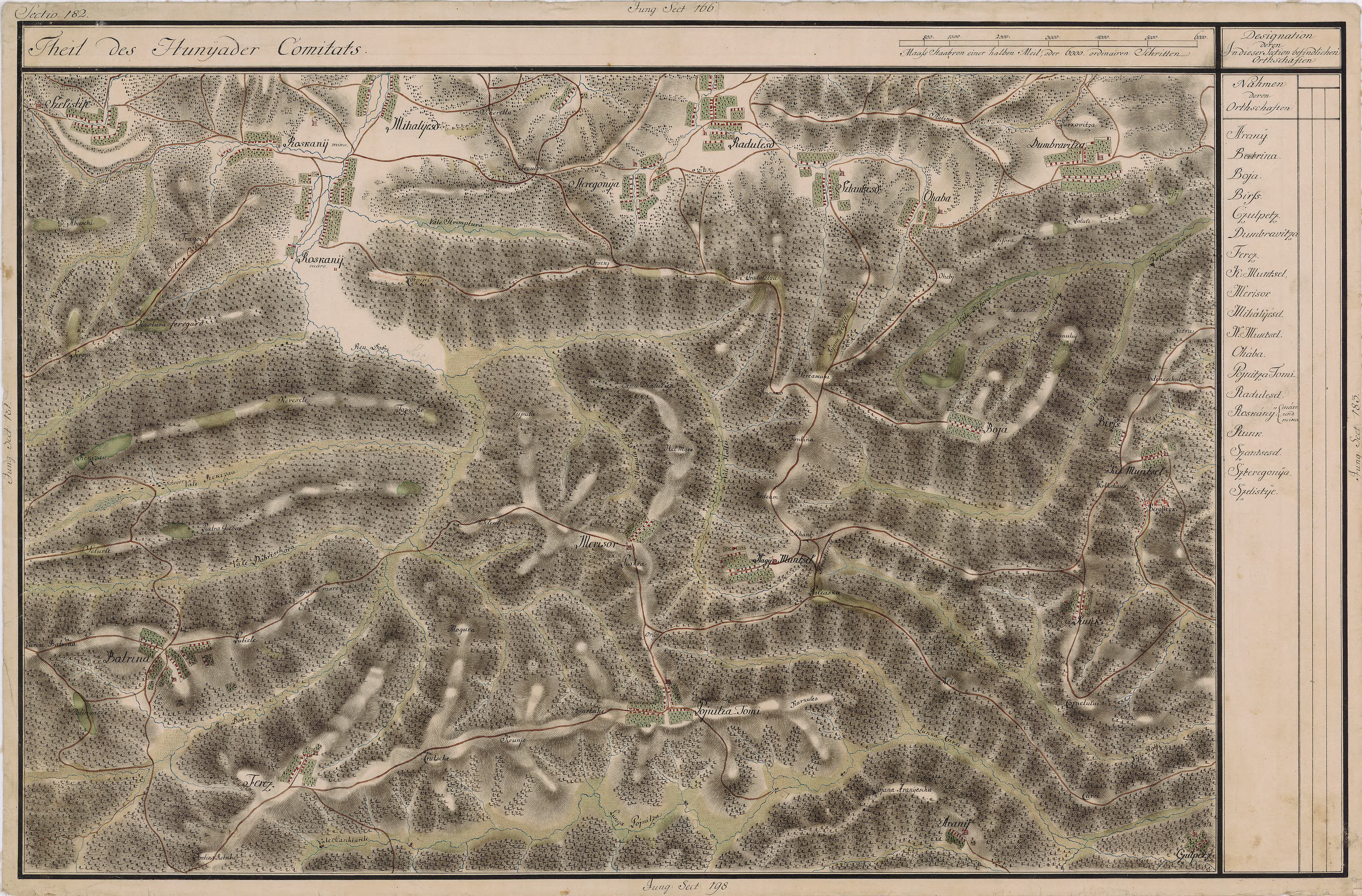 Grand Duchy of Transylvania, 1769-1773. Josephinische Landaufnahme pg.182